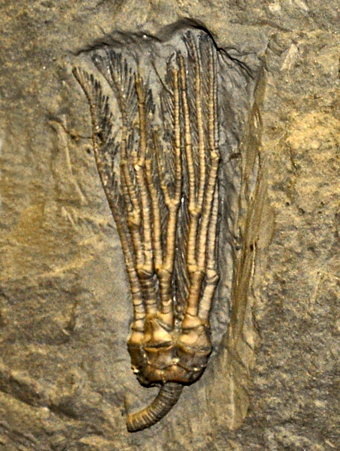 Fossil of Abrotocrinus from Carboniferous of United States, on display at the Museo Civico di Storia Naturale di Milano